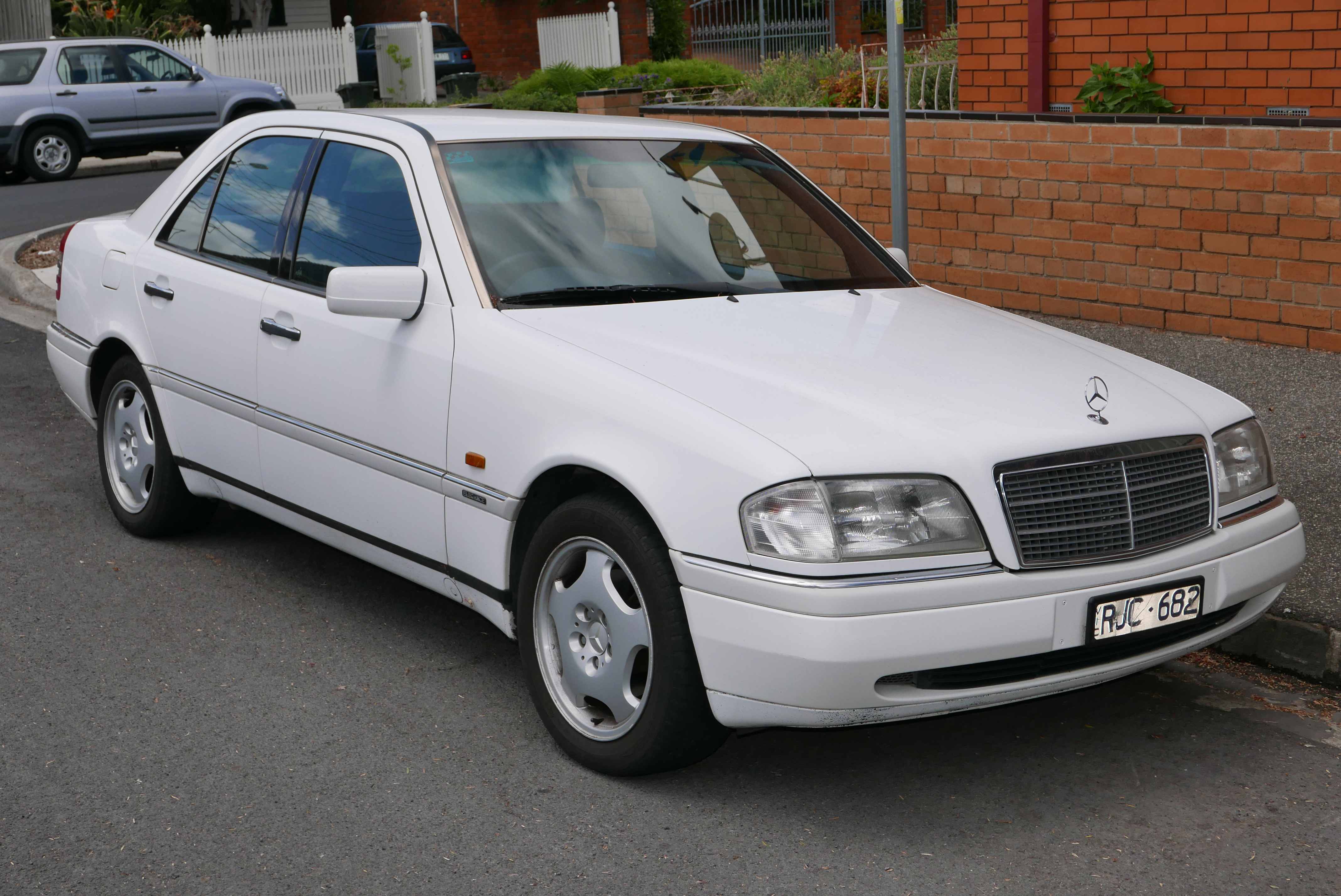 1994 Mercedes-Benz C 220 (W 202) Elegance sedan. Photographed in Brunswick, Victoria, Australia. Vehicle registration enquiry results Jurisdiction Victoria Registration RJC682 Chassis code WDB2020222F036894 Engine code 11196122010617 Compliance date 1994-02 Year of manufacture 1994